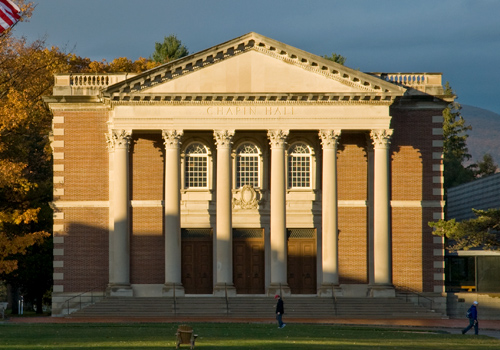 Photo of Chapin Hall at Williams College in Massachusetts.